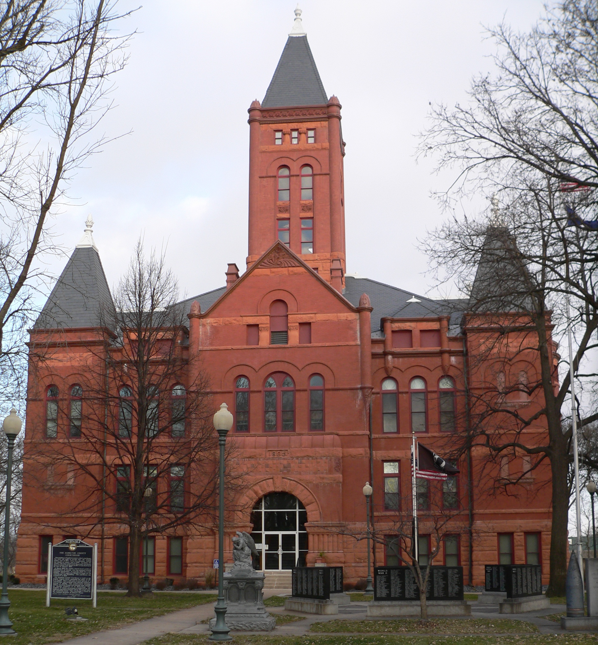 Hamilton County Courthouse in Aurora, Nebraska; seen from the west. The courthouse was designed in Richardsonian Romanesque style by architect William Gray, and constructed in 1894. It is listed in the National Register of Historic Places.